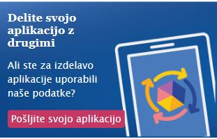 Screenshot from EUODP